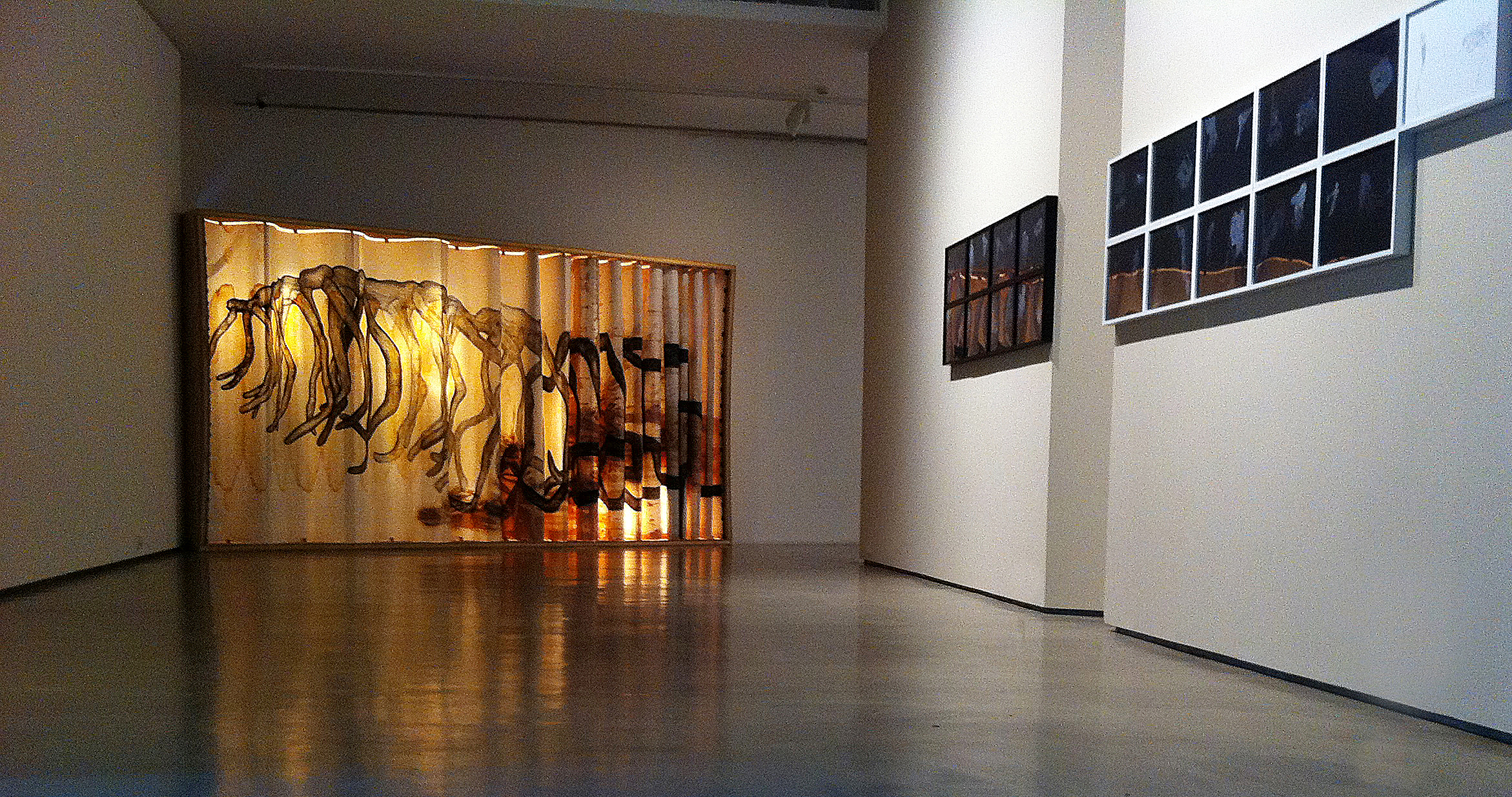 Installation view - 'Digitally twisted' from the exhibition Soliloquies: notes from the drawing book by artist Sunil Padwal